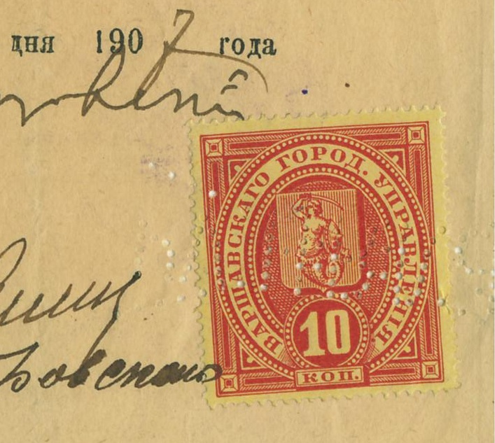 Part of official document dated 1907 with revenue stamp of the town of Warsaw. There is the coat of arms of Warsaw consisting of a syrenka ("little mermaid") on this stamp.